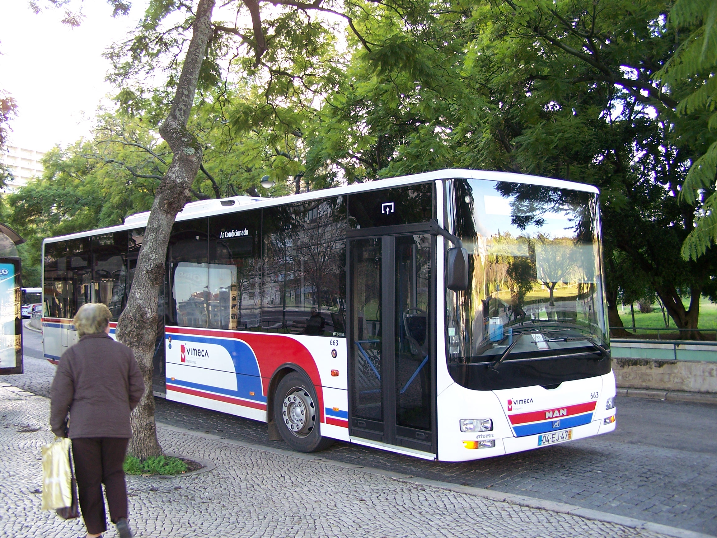 MAN Atomic bus #663 (or MAN chassis bus) of the transport enterprise Vimeca at Praça do Marquês de Pombal, Lisbon, Portugal.